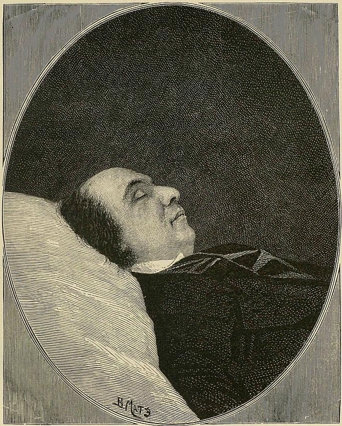 Timofey Granovsky. Deathbed portrait